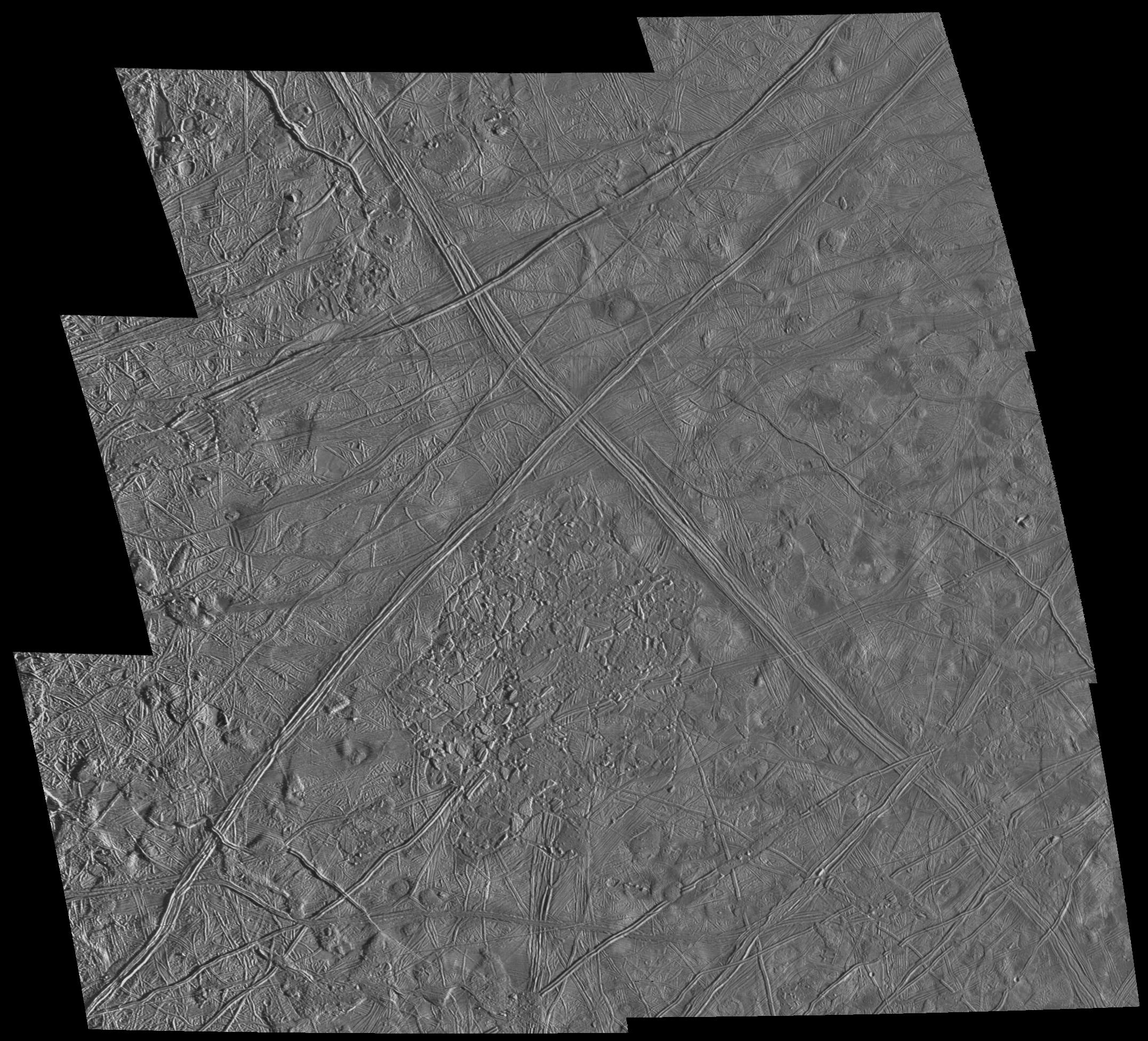 This six frame mosaic of Europa's surface shows a variety of interesting geologic features. The prominent "X" near the center of the mosaic is the junction of two "triplebands." Triplebands are seen here to be made up of parallel sets of ridges, and can be traced for over 1,600 kilometers (off the image) across Europa's surface. Directly to the south of the "X" is a 75 by 100 kilometer (km) area where the icy crust of Europa has been disrupted by activity from below. This activity could be motion in liquid water, convection in warm ice, or some other process. Many icy blocks, some as large as 10 km across, have been rafted from the edges of this zone. Also seen in this mosaic are various pits and domes that range in size from a few kilometers to nearly 20 km across. These geologic features provide evidence of thermal activity below Europa's surface at the time that the features formed. These images were obtained by the Solid State Imaging (CCD) system on NASA's Galileo spacecraft during its sixth orbit around Jupiter. North is to the top of the picture, with the sun illuminating the scene from the right. The center of this mosaic is located near 10 degrees north latitude, 271 degrees west longitude. The image, which is about 300 by 300 km across, was acquired at a resolution of 180 meters per picture element. The Jet Propulsion Laboratory, Pasadena, CA manages the Galileo mission for NASA's Office of Space Science, Washington, DC. JPL is an operating division of California Institute of Technology (Caltech). This image and other images and data received from Galileo are posted on the World Wide Web, on the Galileo mission home page at URL